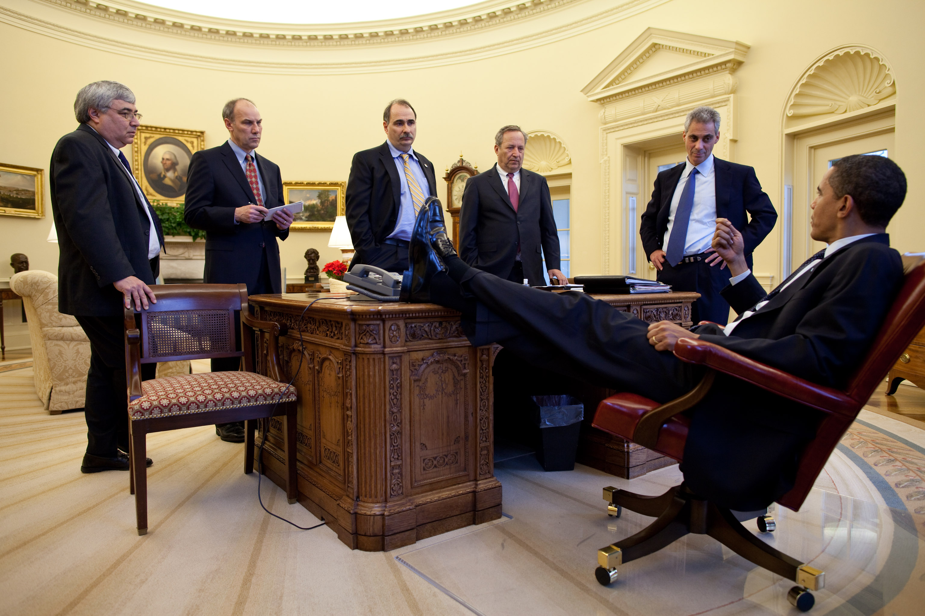 Feb. 4, 2009 “The President talks with aides during an impromptu meeting around the Resolute desk.” (Official White House photo by Pete Souza)